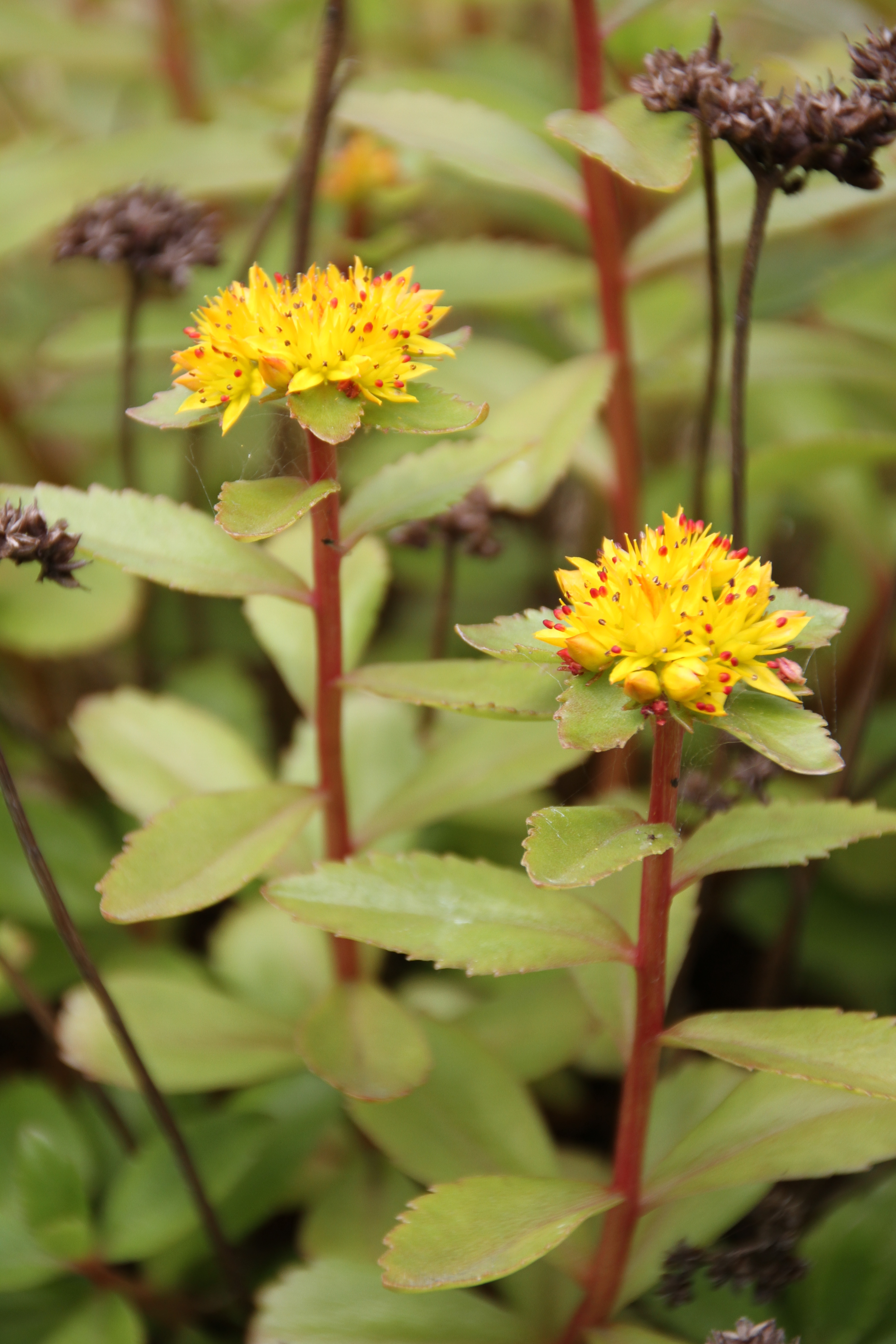 Phedimus aizoon at the Hovedøya Monastery, Oslo (Norway)